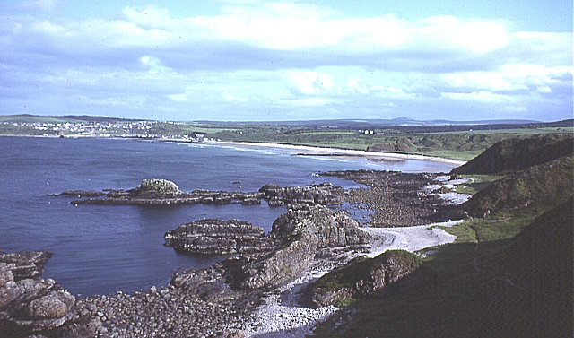 North of Cullen Bay. Looking across the rocky shore north of the beach towards the town of Cullen in the distance.